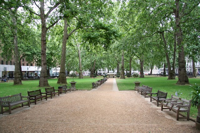 Berkeley Square Archetypal London square in Mayfair